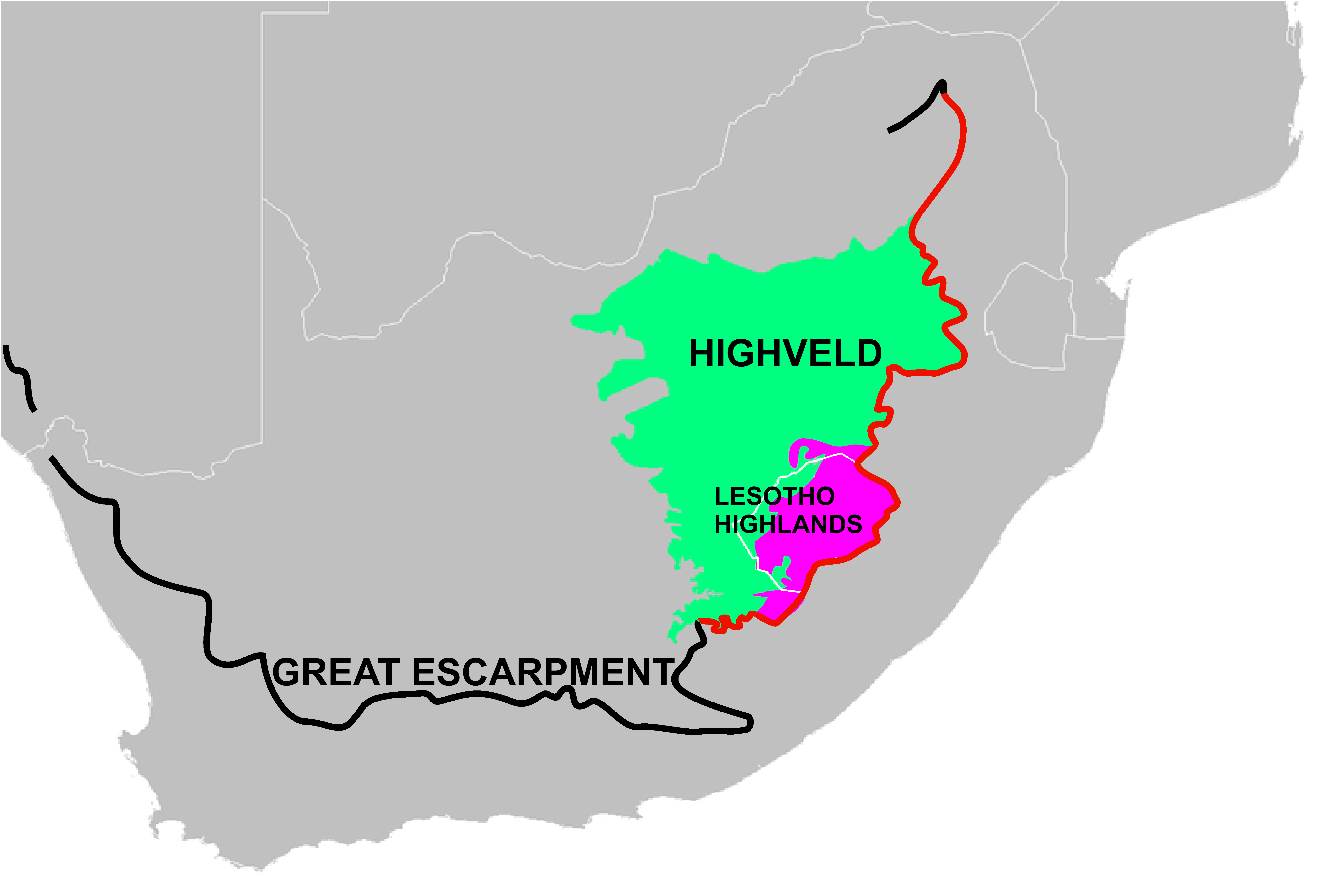 A map of the Great Escarpment in Southern Africa, surrounding the central plateau